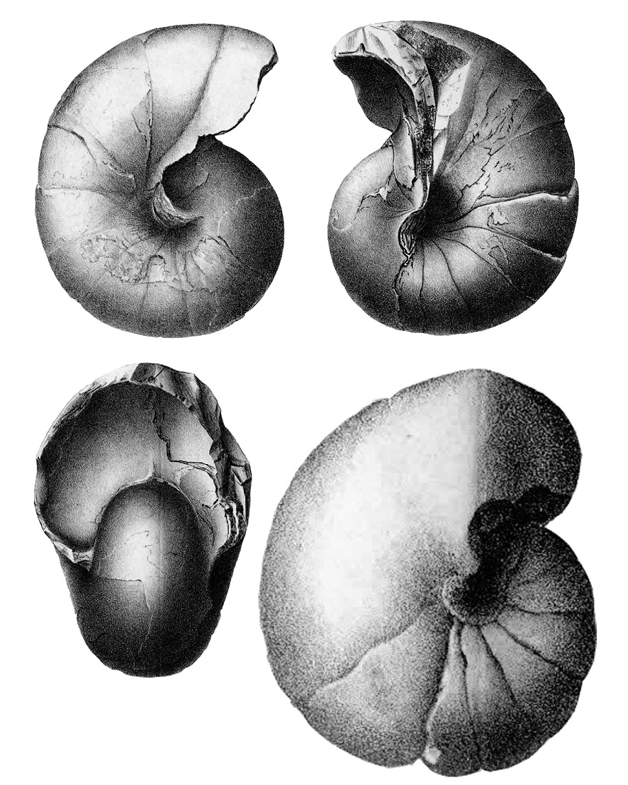 Eutrephoceras dorbignyanum (Forbes in Darwin, 1846) - Strasbourg specimen